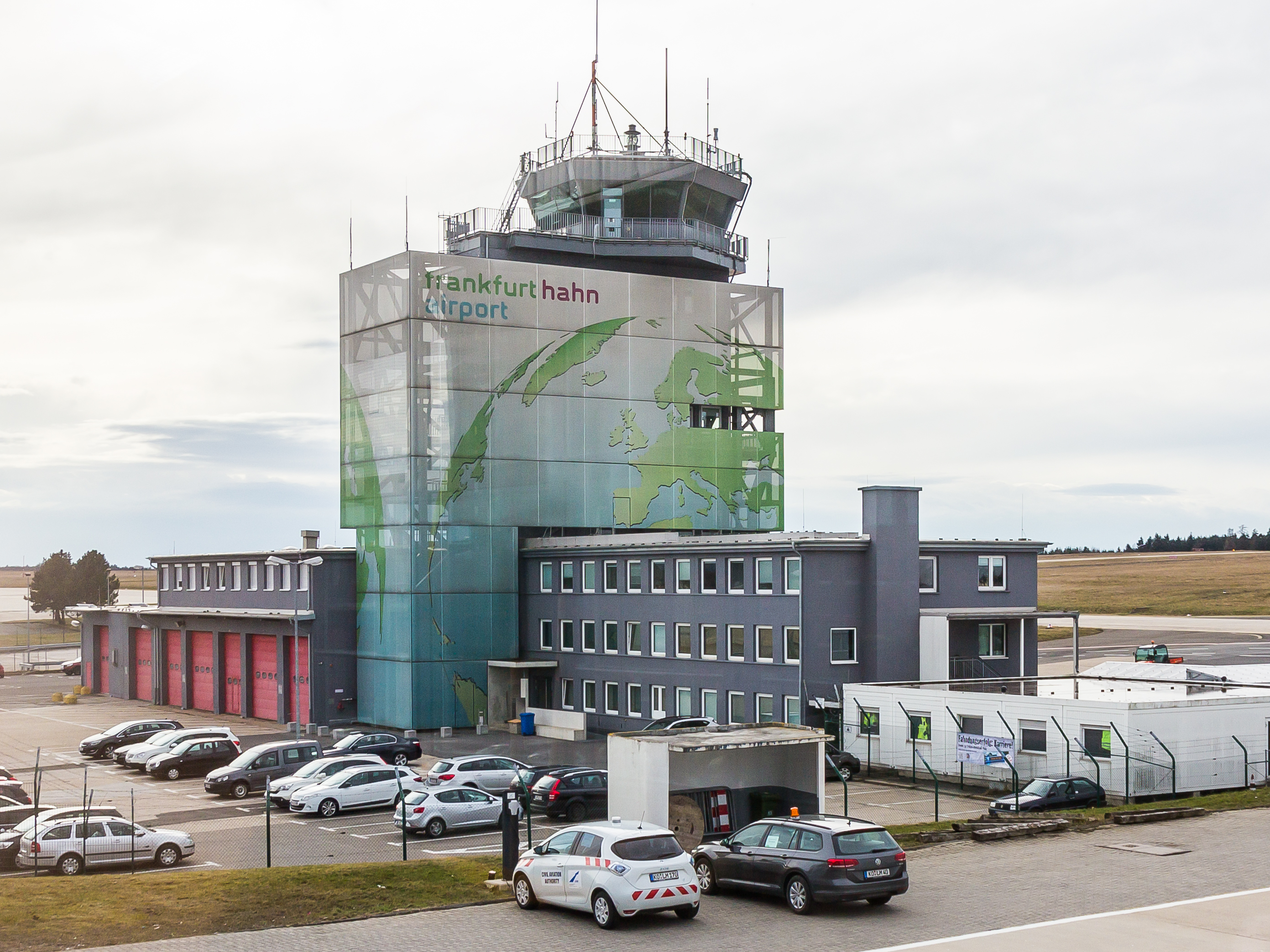 Tower, Airport Frankfurt-Hahn